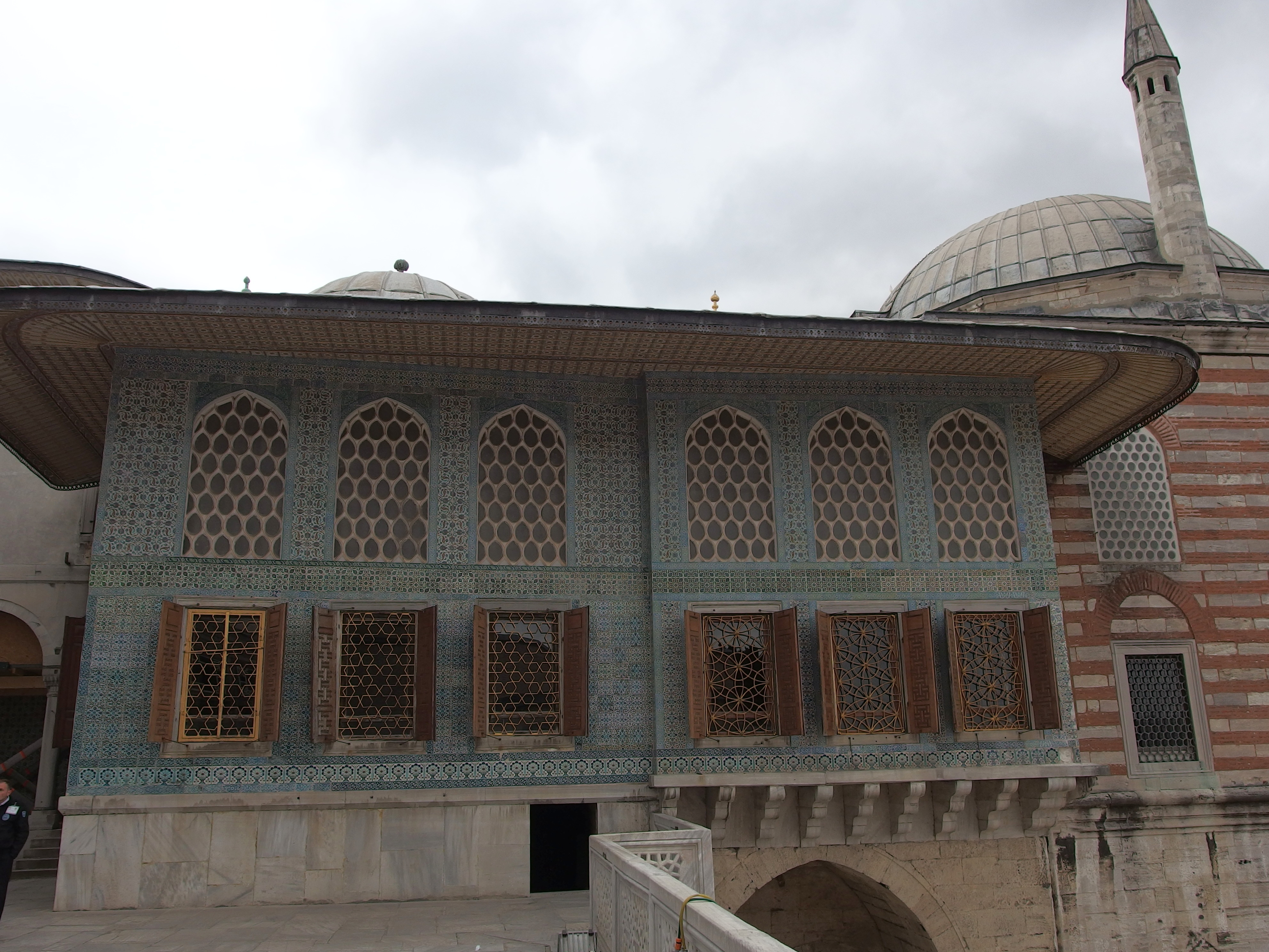 2013-12-04 in Istanbul.